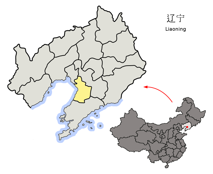 Location of Yingkou Prefecture (yellow) within Liaoning Province of China Map drawn in november 2007 using various sources, mainly : Liaoning Province administrative regions GIS data: 1:1M, County level, 1990 Liaoning Counties map from